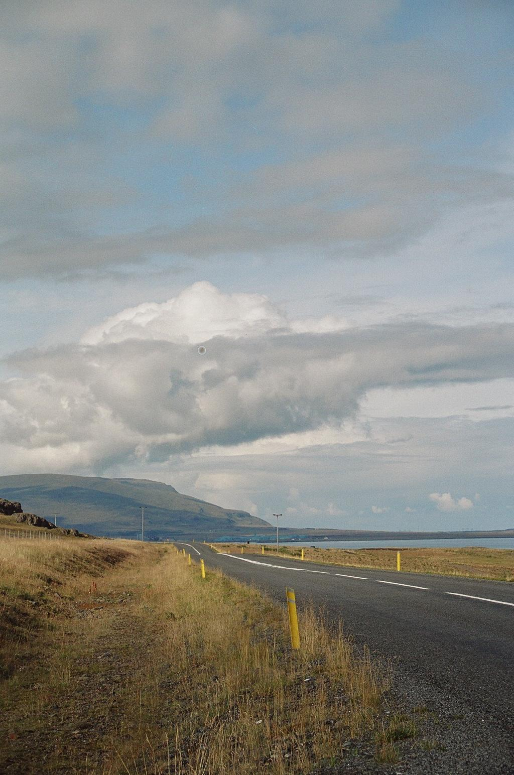 Hvalfjörður, Iceland, GNU-FDL I took the picture by my-self in september 2004.